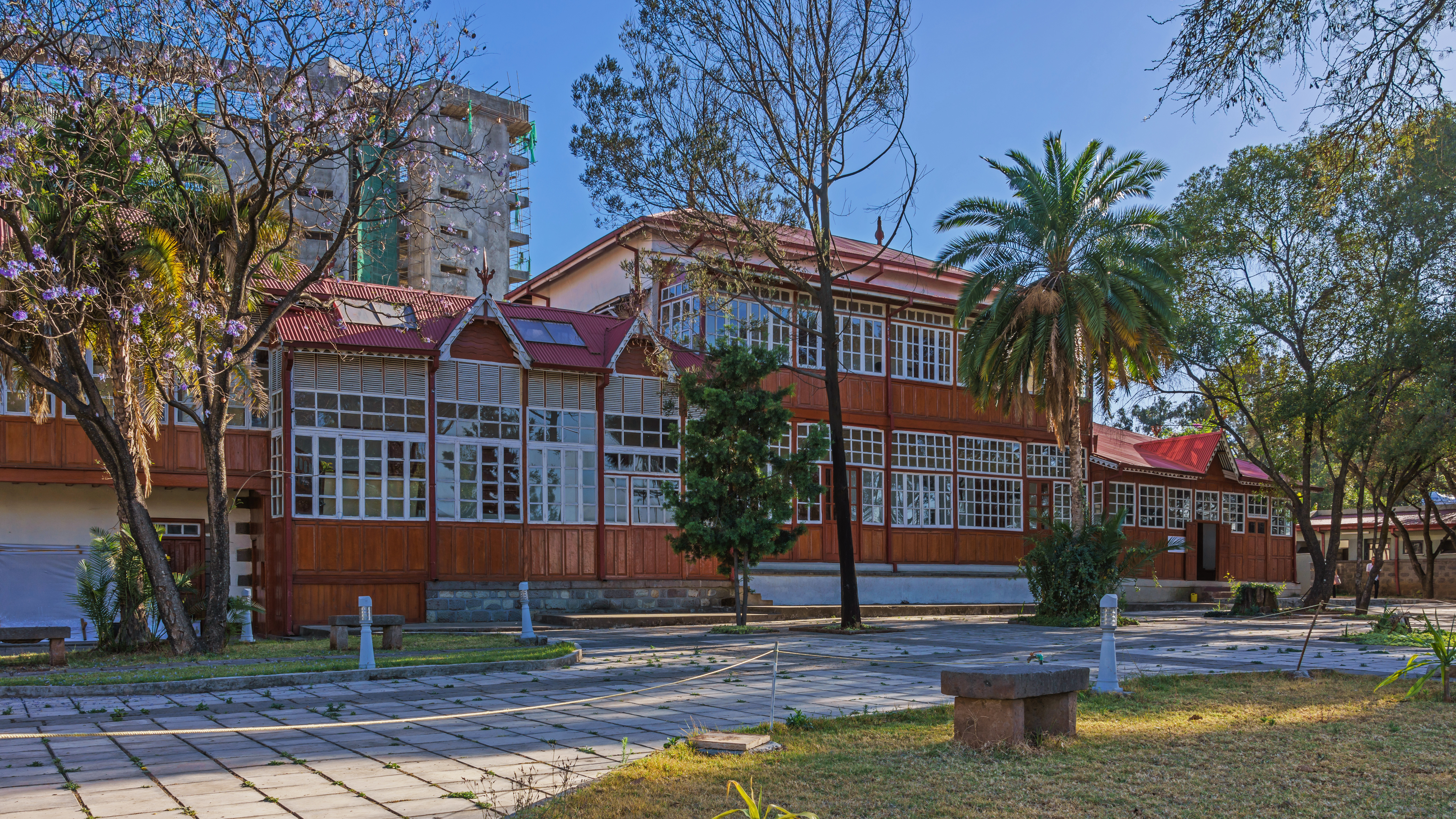 Building of the Addis Abeba Museum in Addis Ababa, Ethiopia